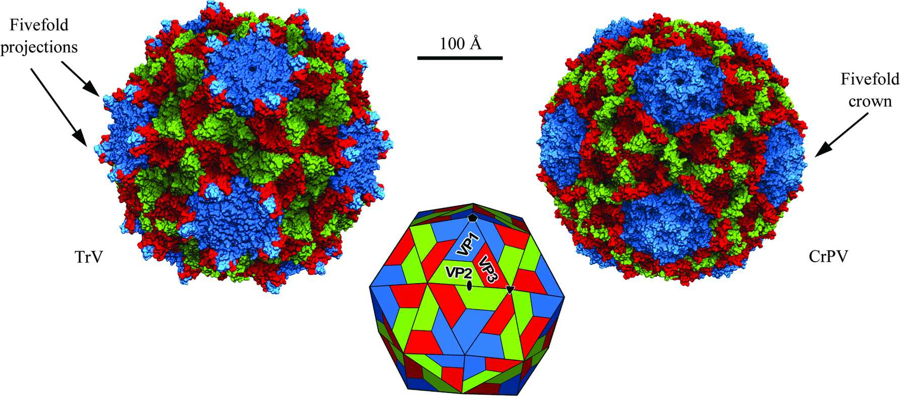 Molecular surfaces of Triatoma virus (TrV) and Cricket paralysis virus (CrPV; PDB entry 1b35). The individual proteins are coloured according to the following code: VP1, blue; VP2, green; VP3, red. The structures are on the same scale. TrV displays characteristic surface projections formed by VP1 and VP3 around the fivefold axes, while there is a depression at the twofold axes of TrV.